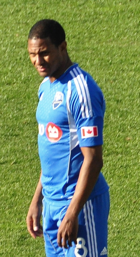 Patrice Bernier playing for Montreal Impact.